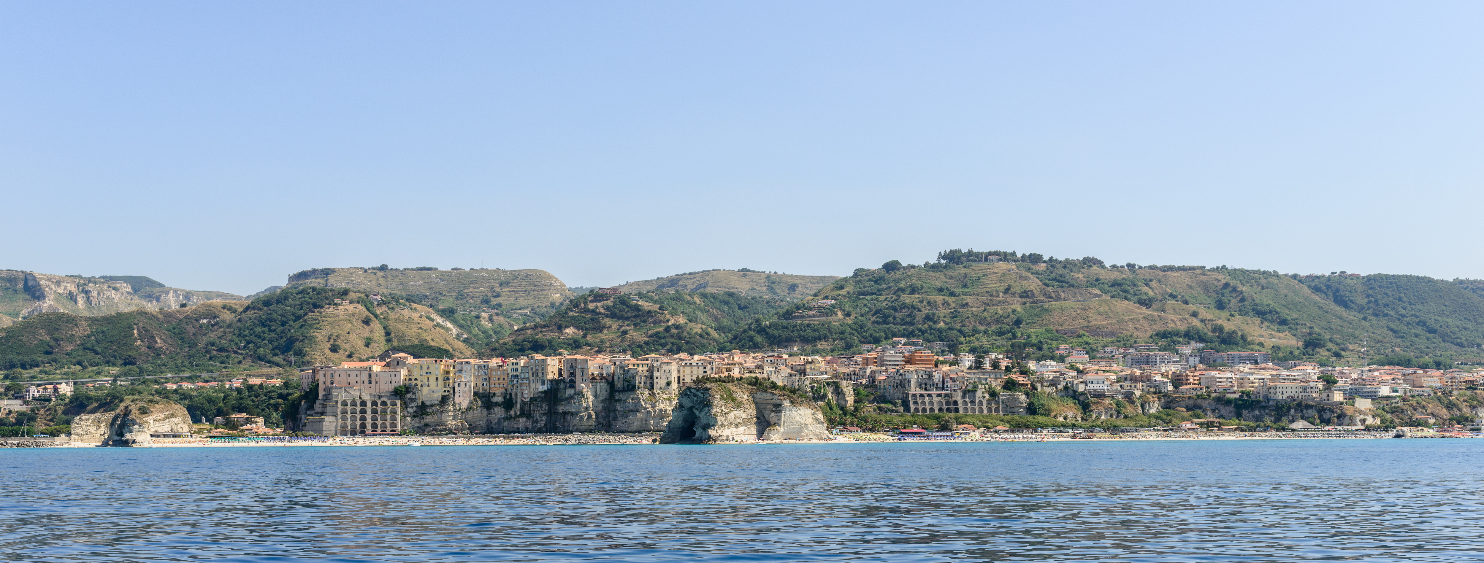 Tropea panorama, Calabria, Italy.